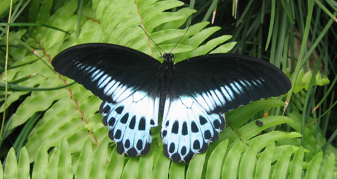 Blue Mormon, Papilio polymnestor Cramer 1775.